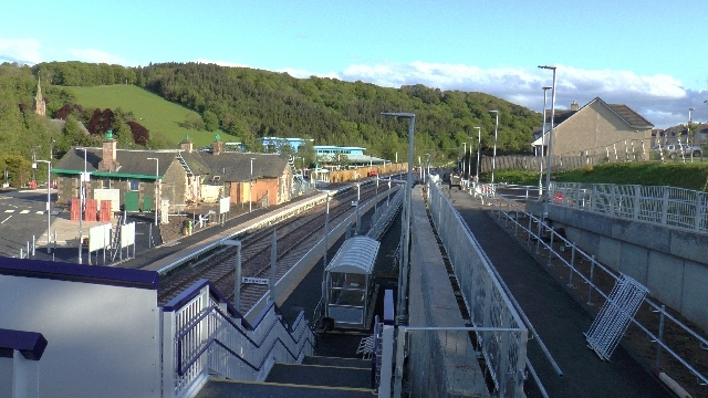 The unopened and near complete Stow station on the Borders Railway